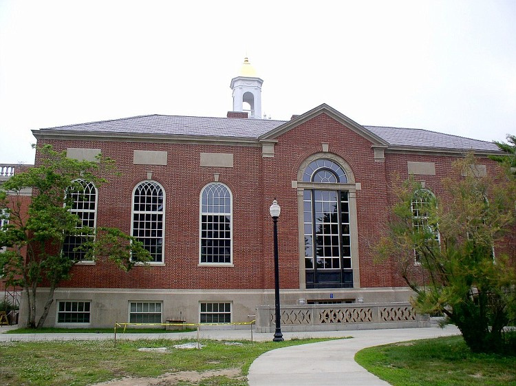 Wilbur Cross Library, University of Connecticut, Storrs, CT. Part of the "University of Connecticut Historic District-Connecticut Agricultural School" historic district.